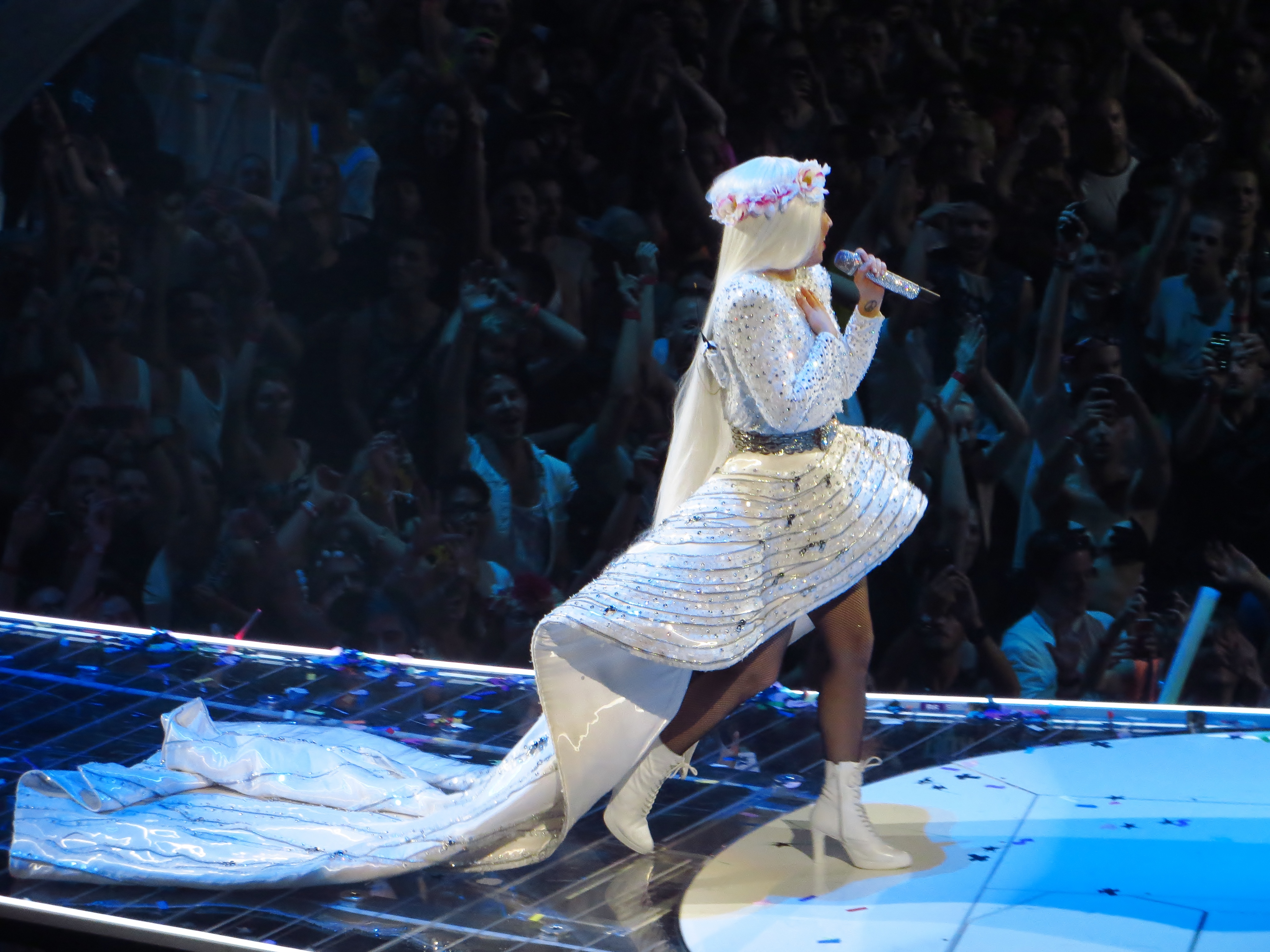 Lady Gaga, ARTPOP Ball Tour, Bell Center, Montréal, 2 July 2014 (126) Gaga performing on ArtRave: The Artpop Ball tour